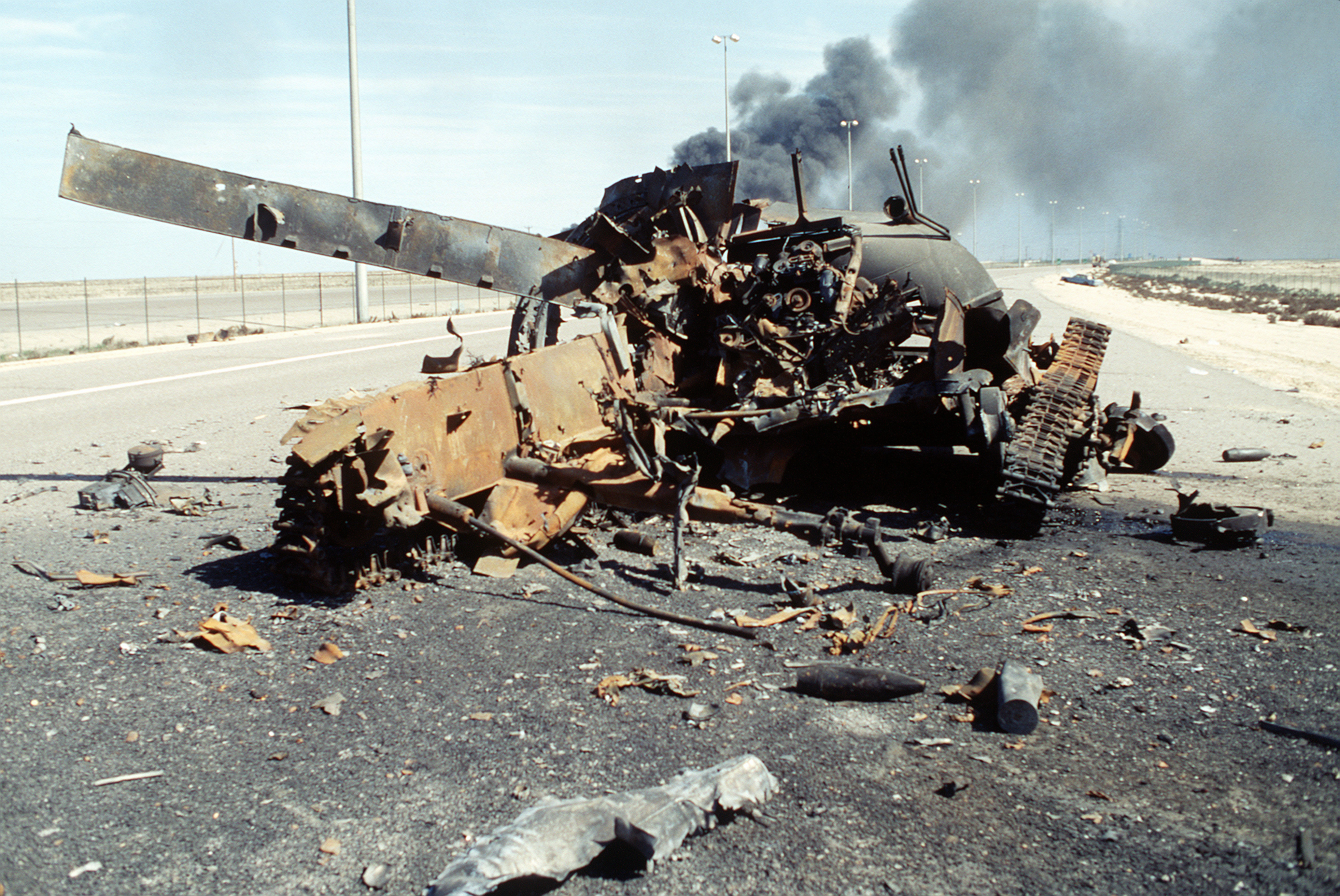 An Iraqi main battle tank on a highway south of Kuwait City destroyed in a Coalition attack during Operation Desert Storm.